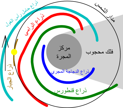 → Milky Way Spiral Arm (other versions)